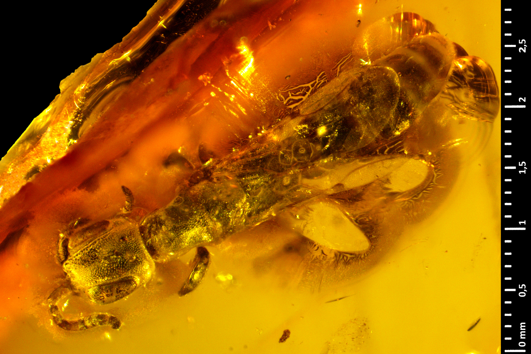 The Elektroepyris magnificus holotype specimen in dorsal view. Ypresian, Eocene; Oise Amber, Le Quesnoy, Houdancourt, Oise, Picardie France Muséum national d'Histoire naturelle specimen MNHN.F.A30298